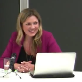 Panel 2 - Best of the rest: Brie Rogers Lowery at OSI